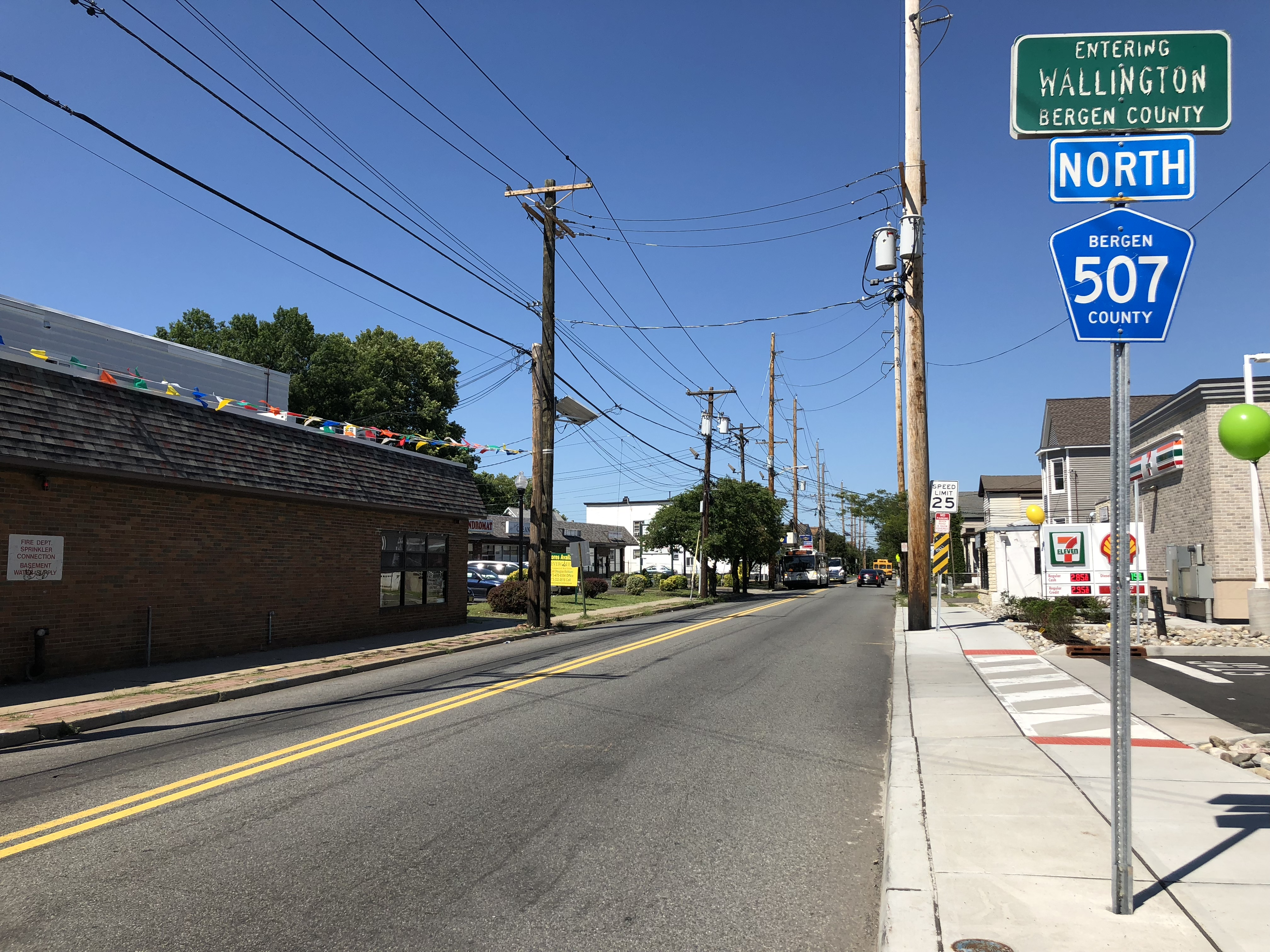 View north along Bergen County Route 507 (Locust Avenue) at Bergen County Route 120 (Paterson Avenue) in Wallington, Bergen County, New Jersey